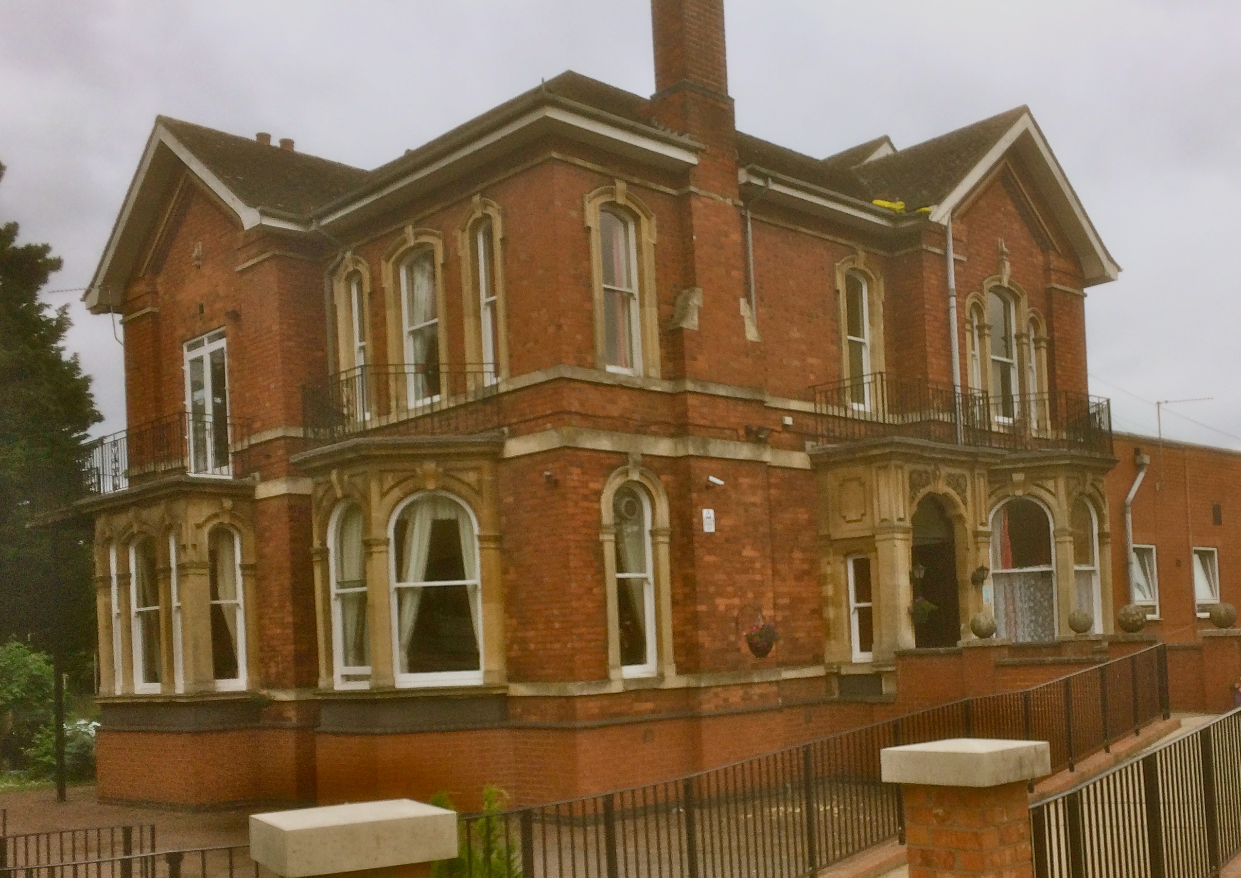 78 South Park, Lincoln